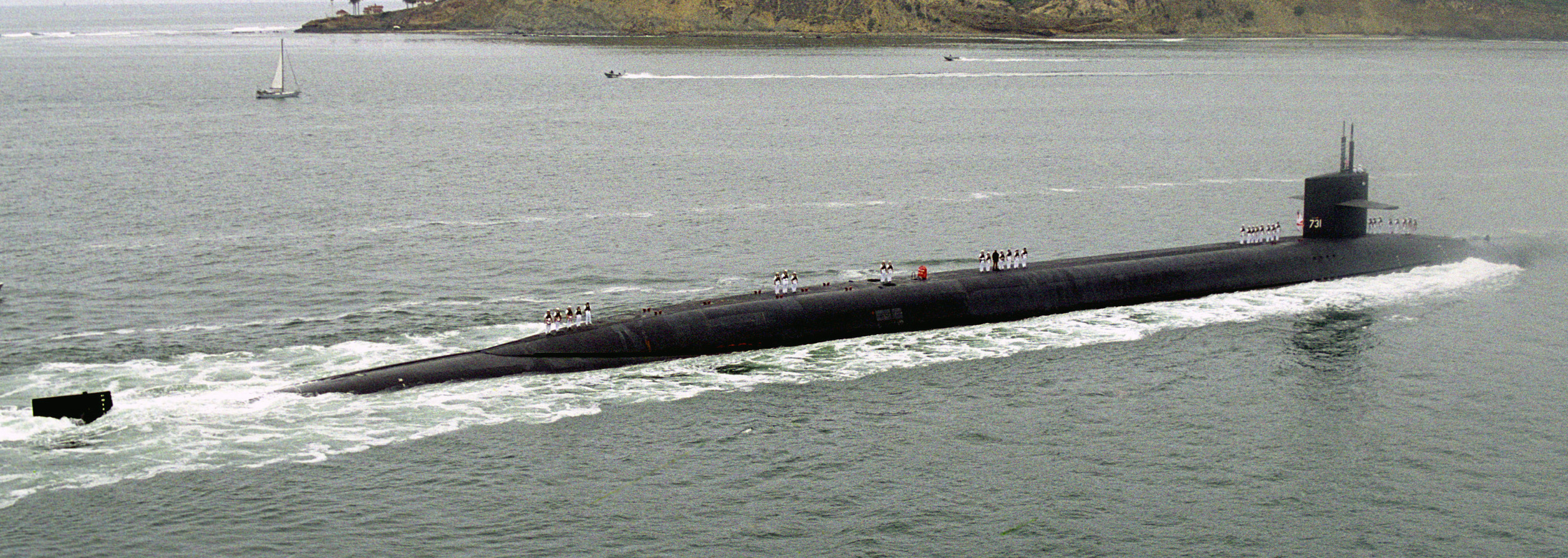 The USS ALABAMA (SSBN 731) passes Cabrillo National Monument as it heads for the Naval Submarine Base Point Loma, California.